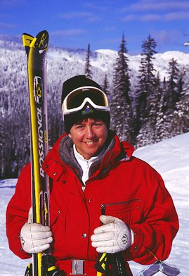 Nancy Green at Sun Peaks Resort in 2000